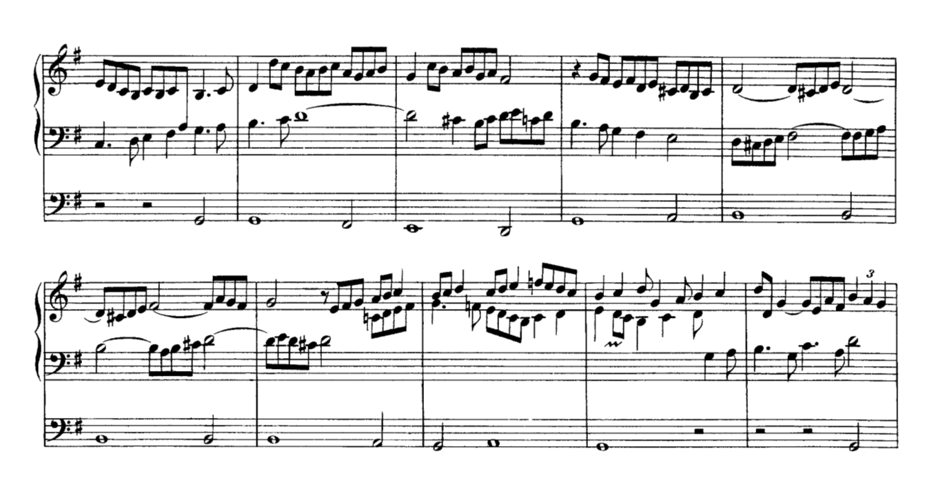 Score of beginning of third verse of Chorale Prelude Nun lob, mein Seel, BuxWV 213